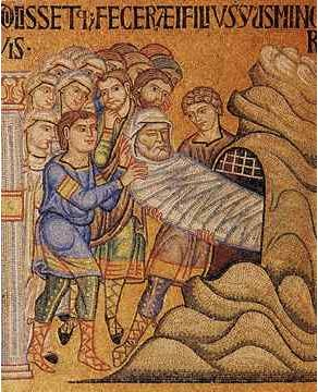 The burial of Noah. Mosaic in lunettes of Basilica di San Marco